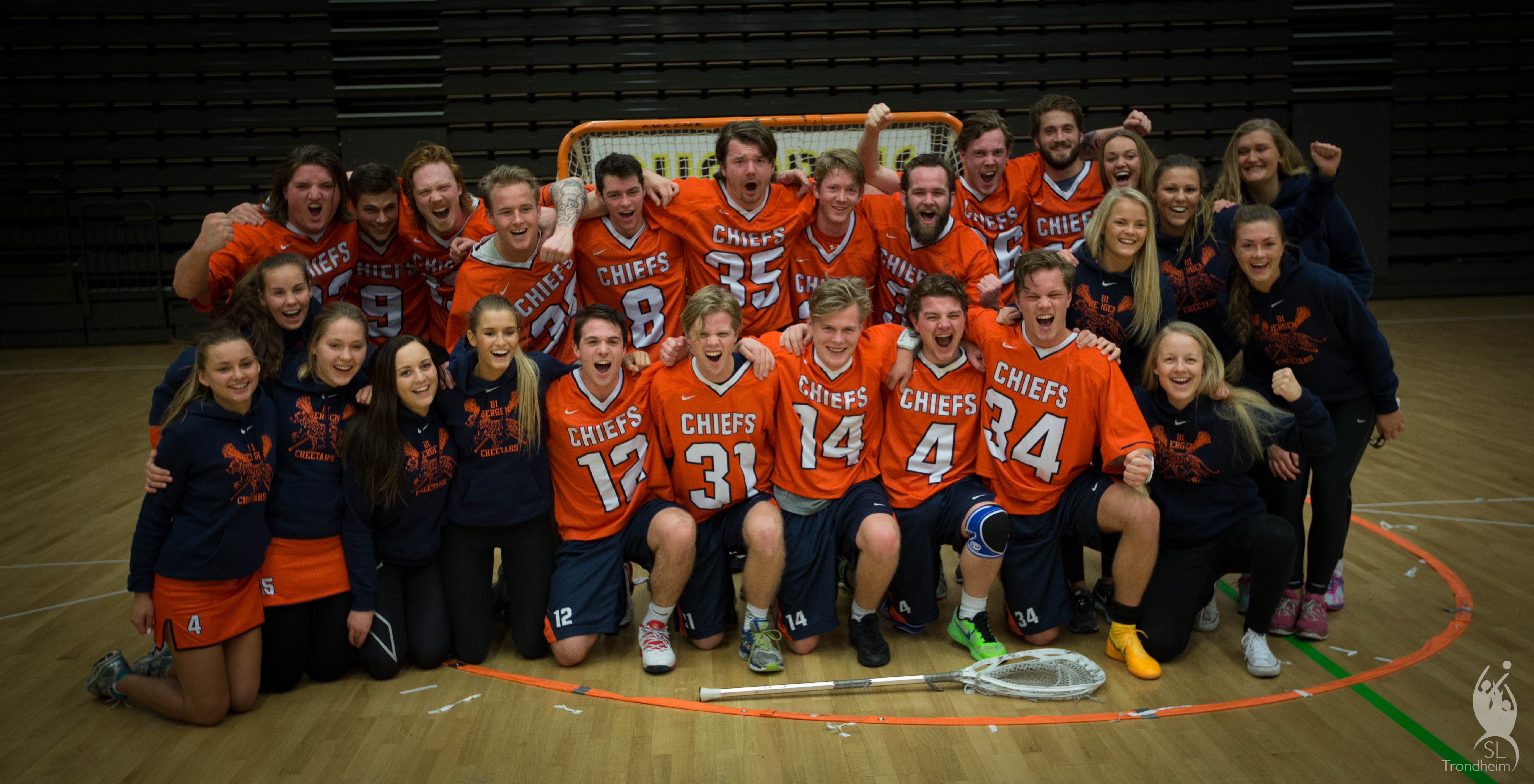 BI Chiefs Studentlekene Trondheim 2015